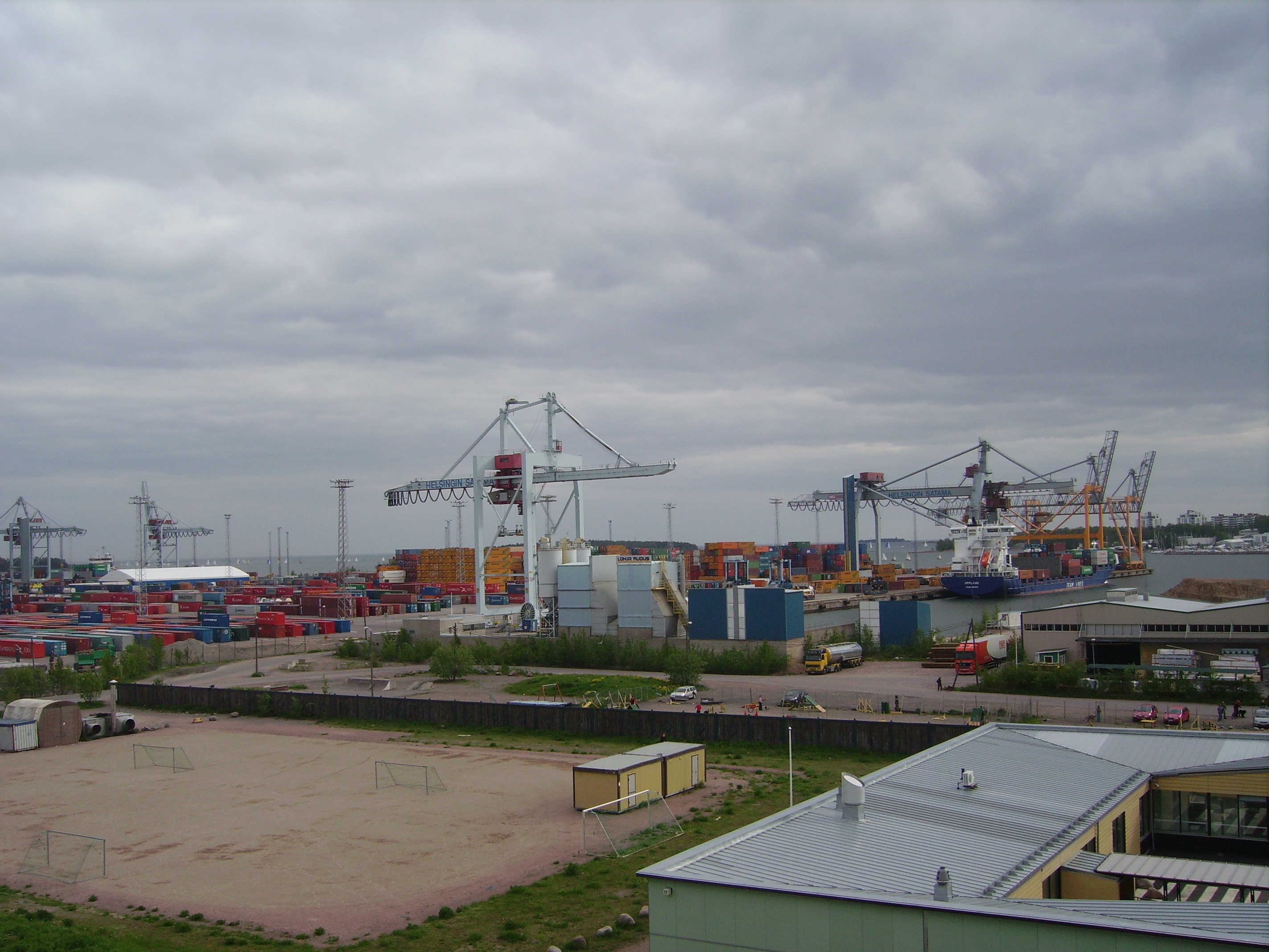 The incredibly scenic Länsisatama, and a sand soccer field in Helsinki, Finland